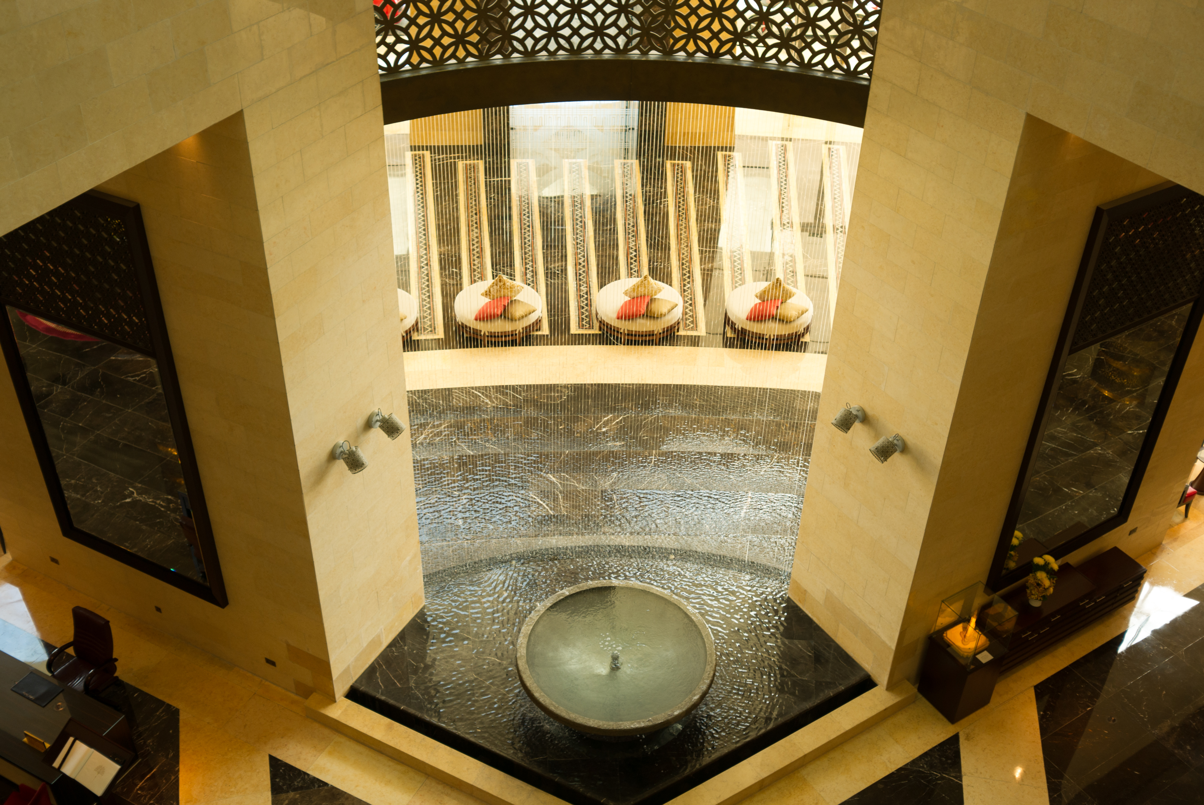 Hotel Raffles Dubai in 2012 (view of the lobby).